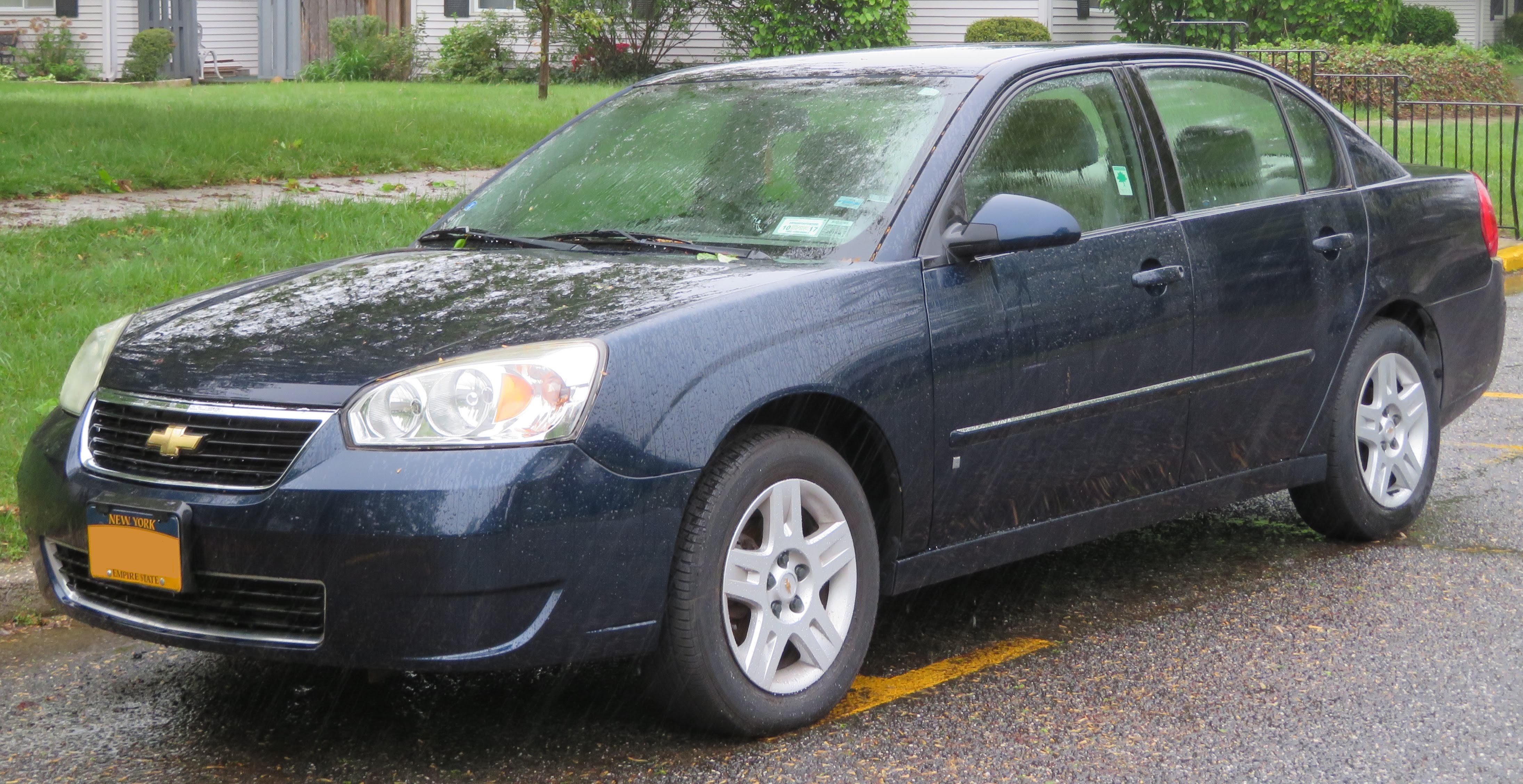 In Long Island, New York